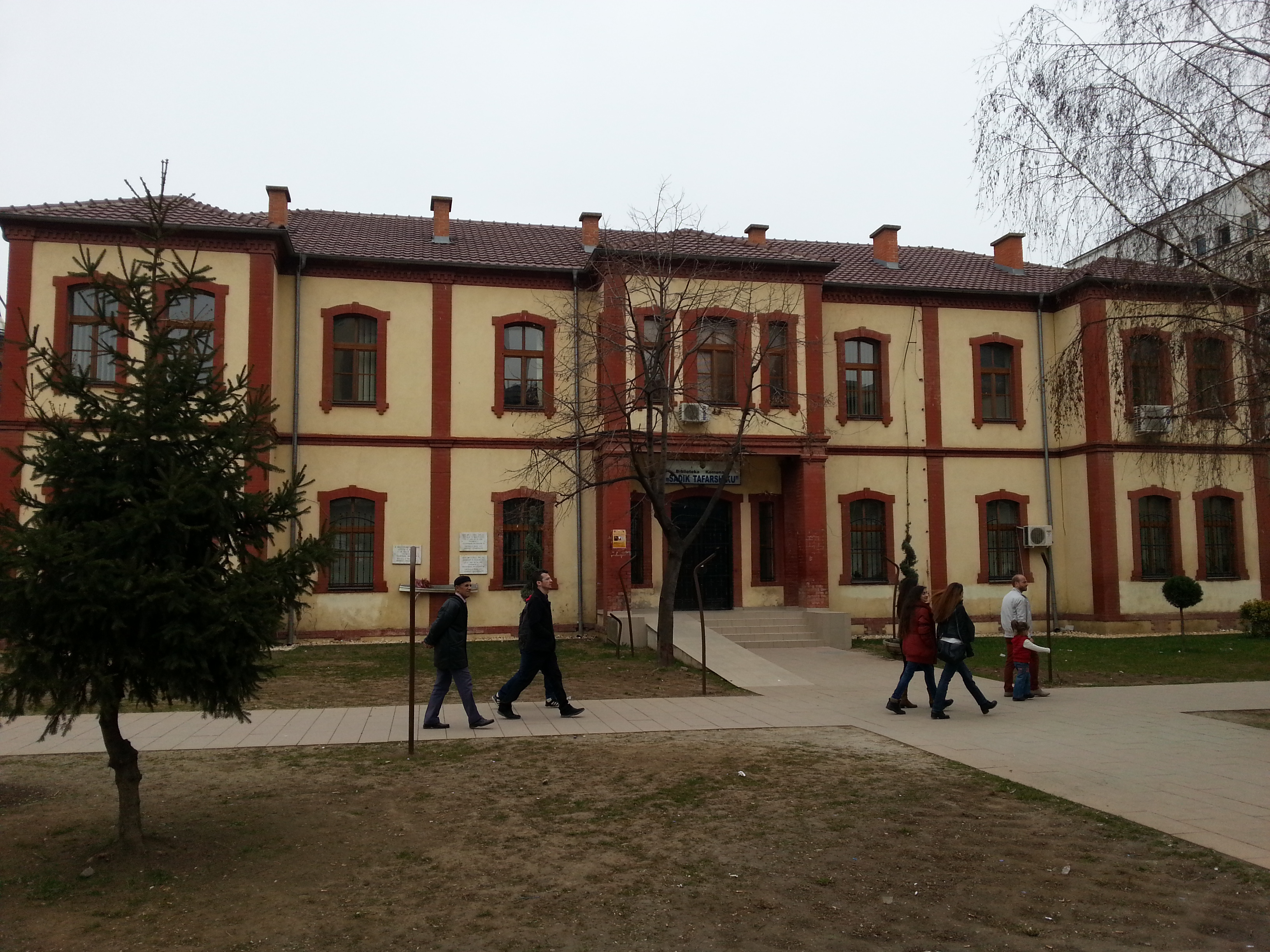 Oldest library in Ferizaj